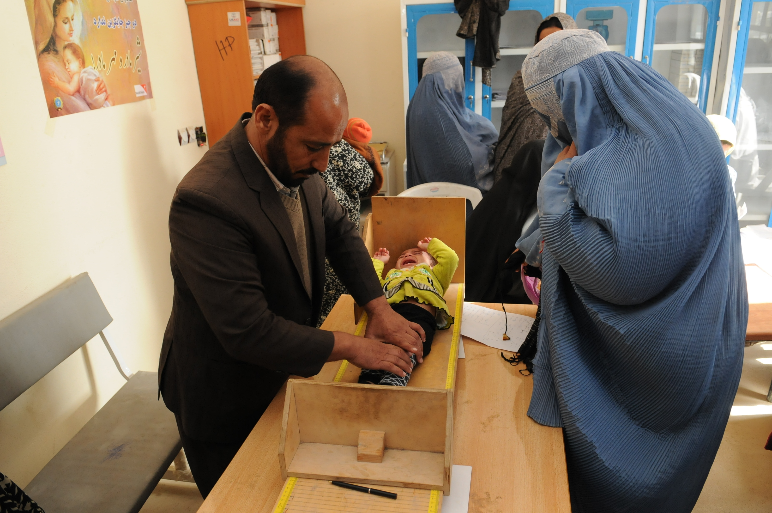 An Afghan woman, right, observes as Abdul Ghani Mehrzad, left, director of the children's supplemental feeding center at the Farah City hospital, measures her child during a weekly visit to the center in Farah City, Jan. 19. The supplemental feeding center in at the Farah City hospital is sponsored by Provincial Reconstruction Team (PRT) Farah and provides food, education and vaccinations to Afghan children. PRT Farah's mission is to train, advise, and assist Afghan government leaders at the municipal, district, and provincial levels in Farah province, Afghanistan. Their civil military team is comprised of members of the U.S. Navy, U.S. Army, the U.S. Department of State and the U.S. Agency for International Development (USAID). (U.S. Navy photo by Lt. j.g. Matthew Stroup/released)